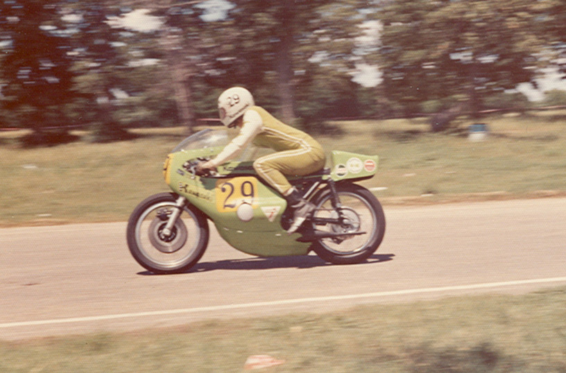 Eddie Hill, the hall of fame drag racer, during the time when he raced motorcycles, Green Valley 1973Eddie Hill